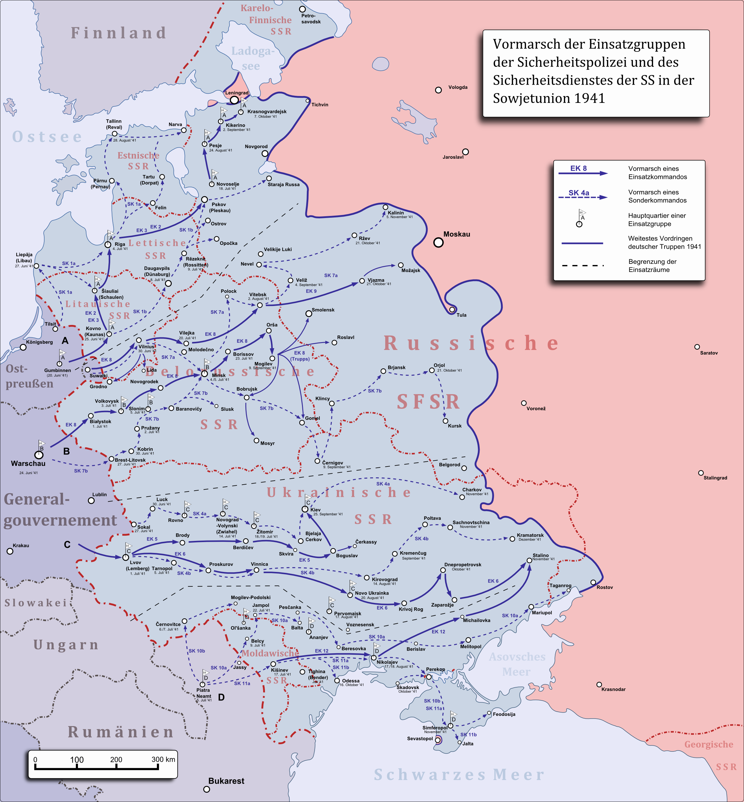 German Map, showing the conduct of operation of the German "Einsatzgruppen" of the SS in the Soviet Union in 1941.